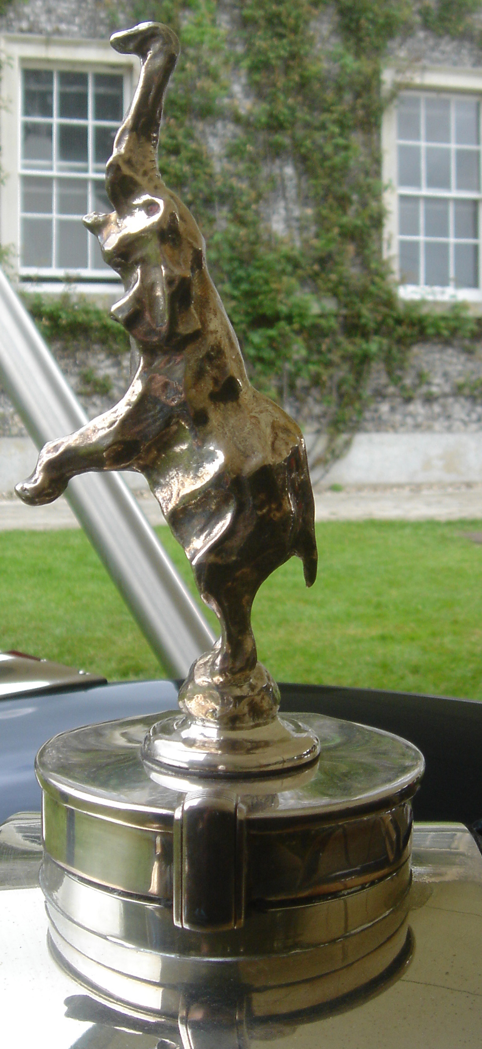 Goodwood Festival of Speed 2007 - hood ornament Bugatti Type 41 Royale (1927)